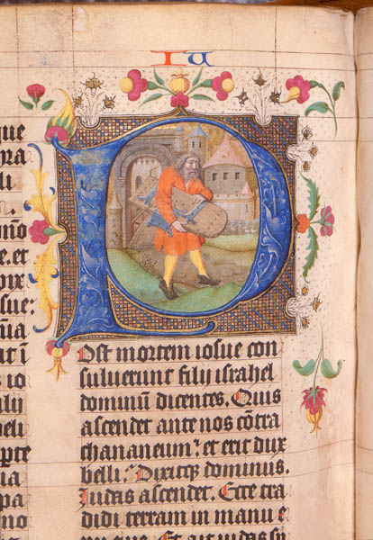 scan of page from Zwolle-Bibel Zwolse Bijbel, Zwolle, 1464-1476, Unversity Library Utrecht; the page shows text from the beginning of the book of Judges; the initial P shows Samson carrying the doors of the city gate (Judges 16:3)